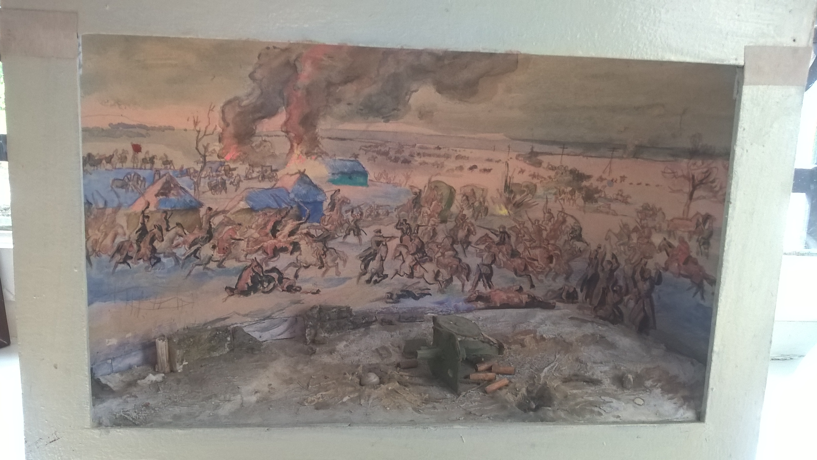 Kotovsky Museum in Tiraspol. Painting depicting Kotovsky's victory over Mamontov's troops